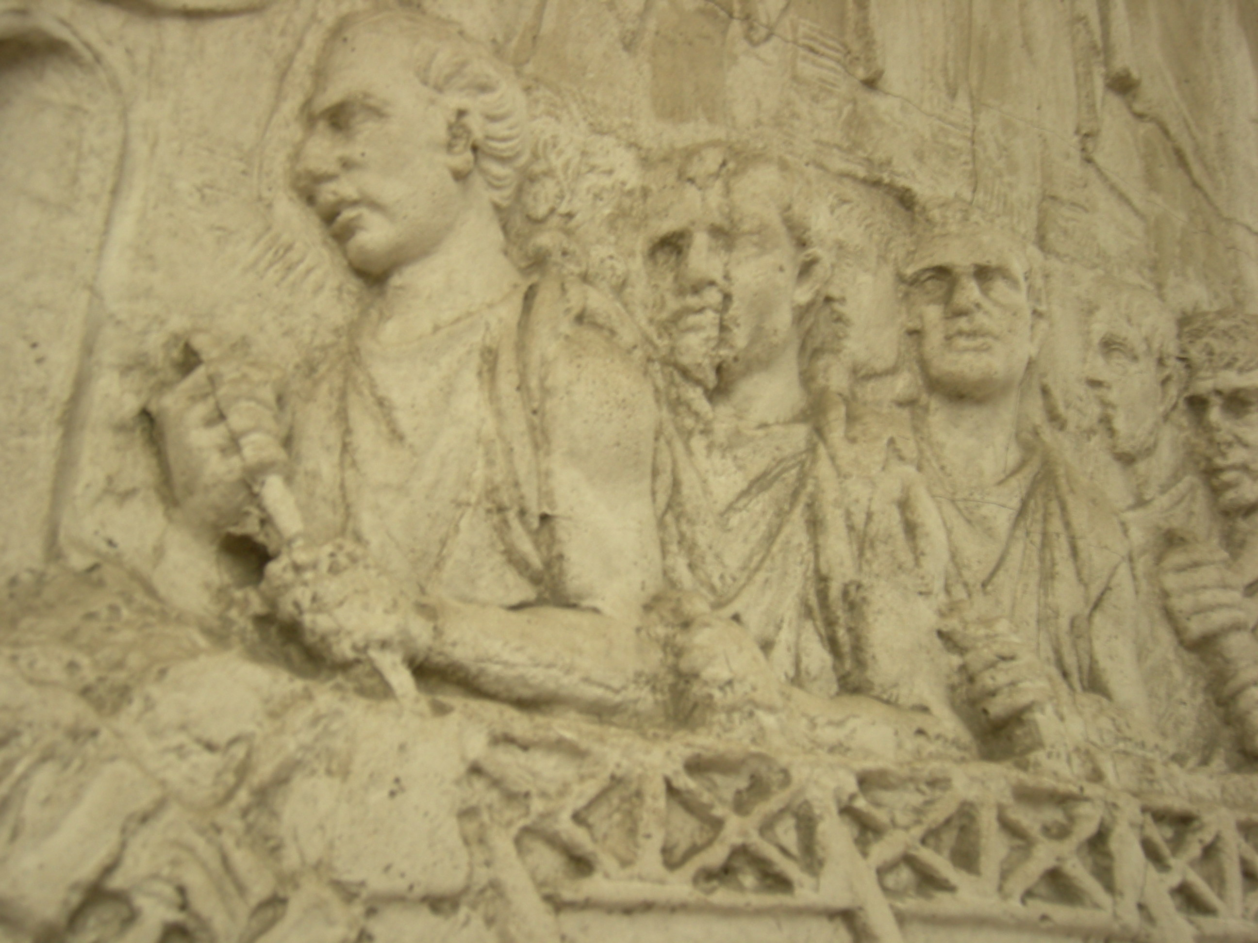 Trajan and his soldiers crossing the Danube (detail). From Trajan's Column; this is from the plaster-cast reproduction at the Museum of Romanian History in Bucharest, Romania